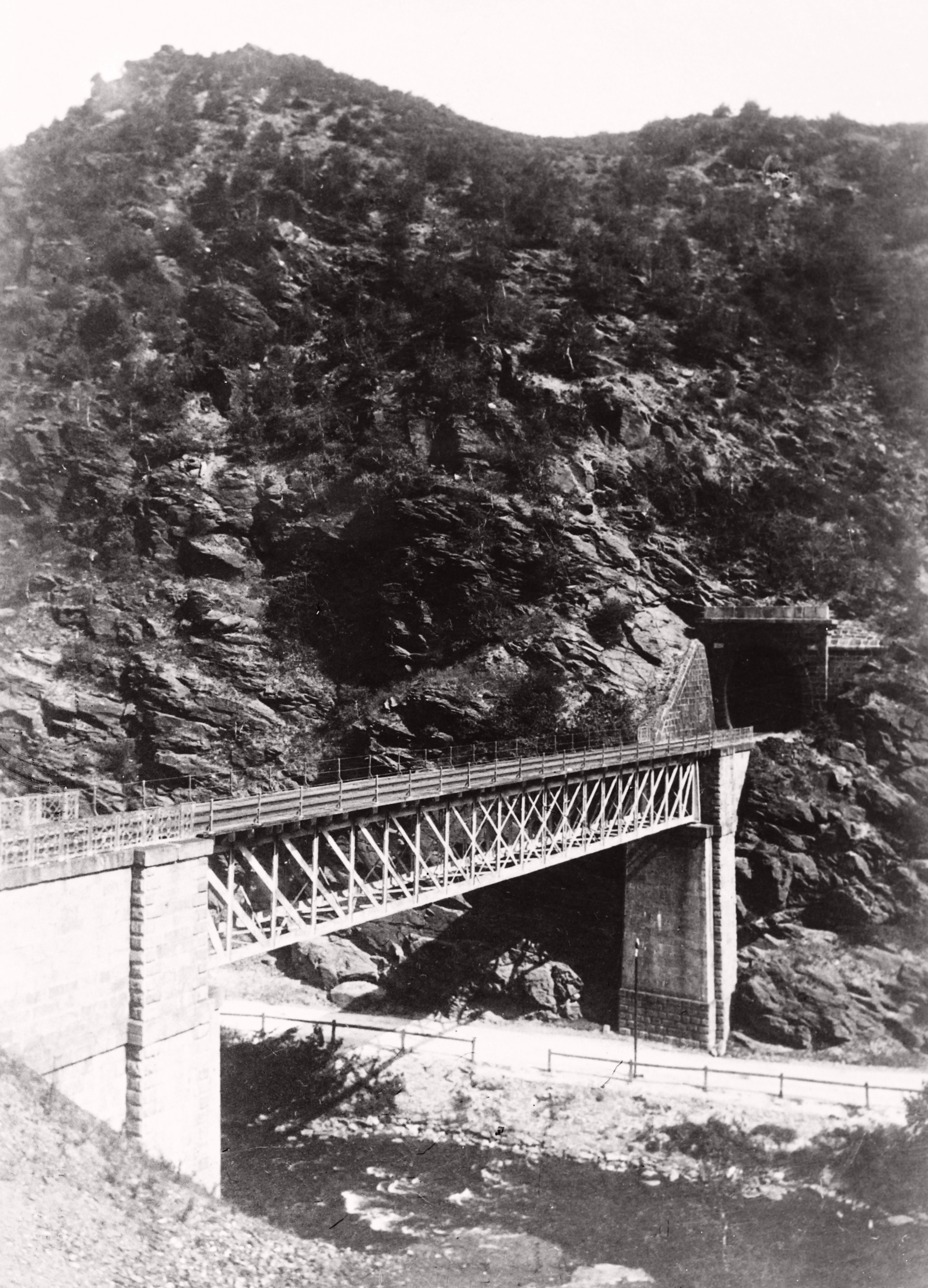 railway bridge over the Timiș/Temes/Temesch river, near Armeniș